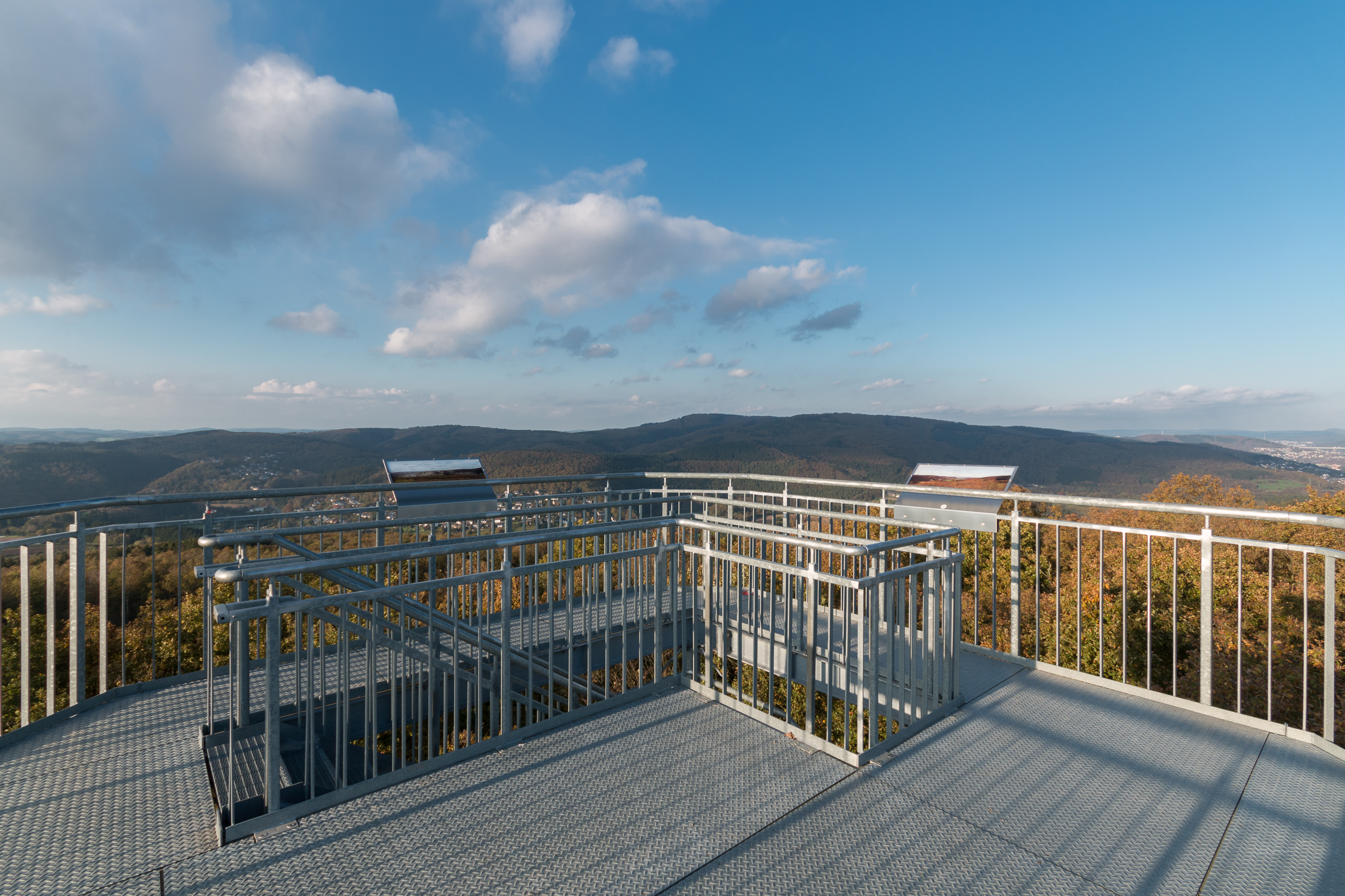 The Ottoturm near Kirchen at the Sieg